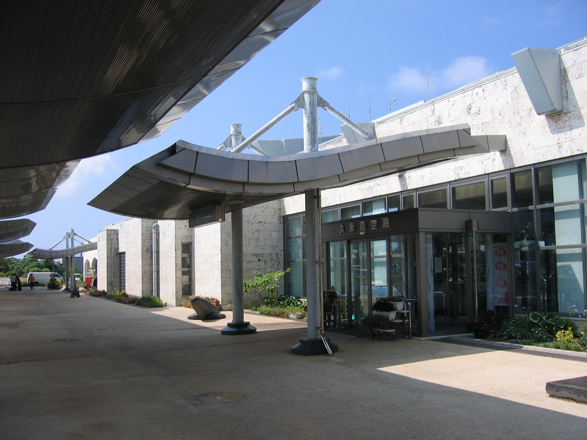 Kumejima Airport, Kumejima, Okinawa Prefecture, Japan